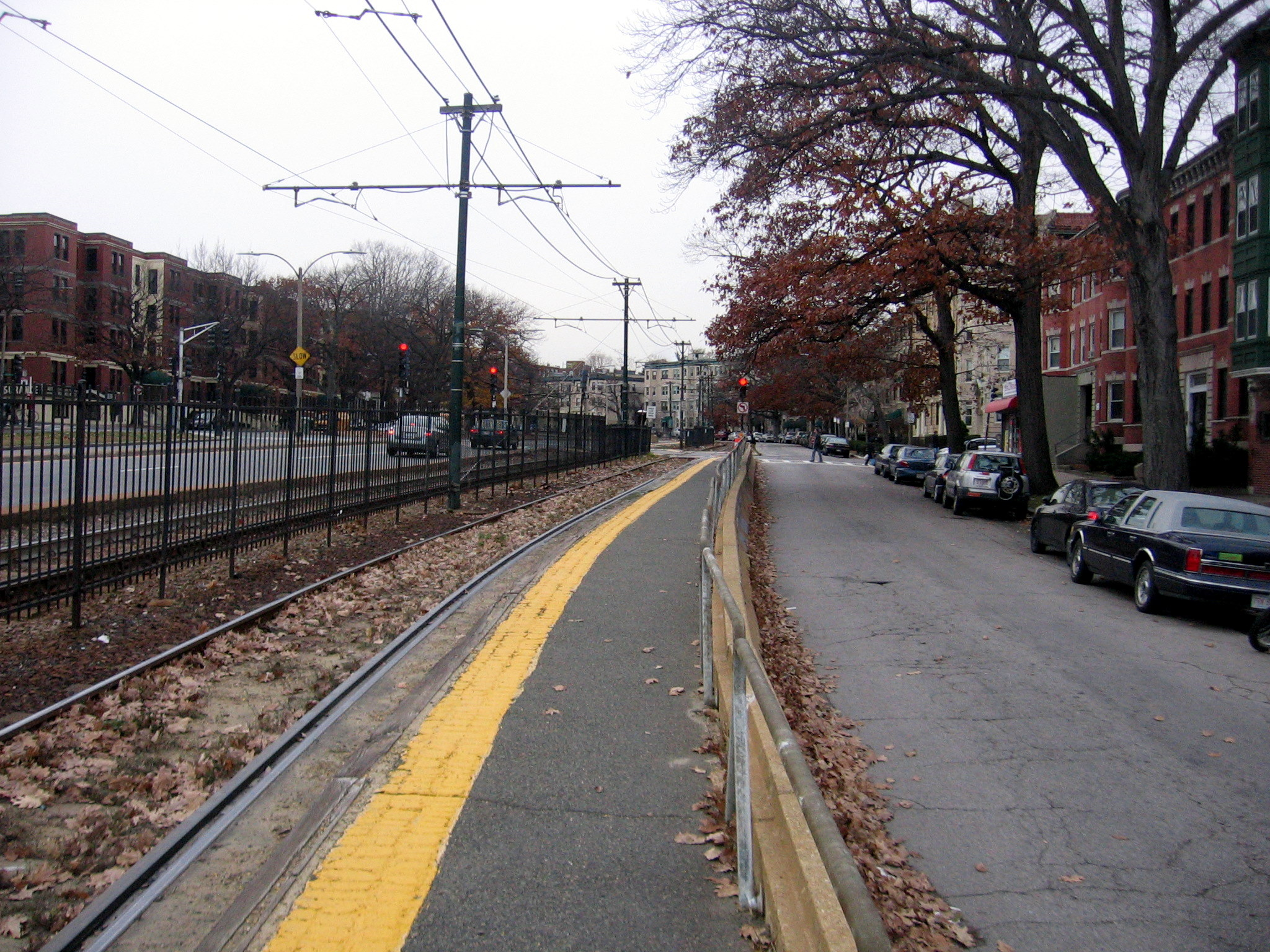 Outbound platform at Allston Street, facing outbound